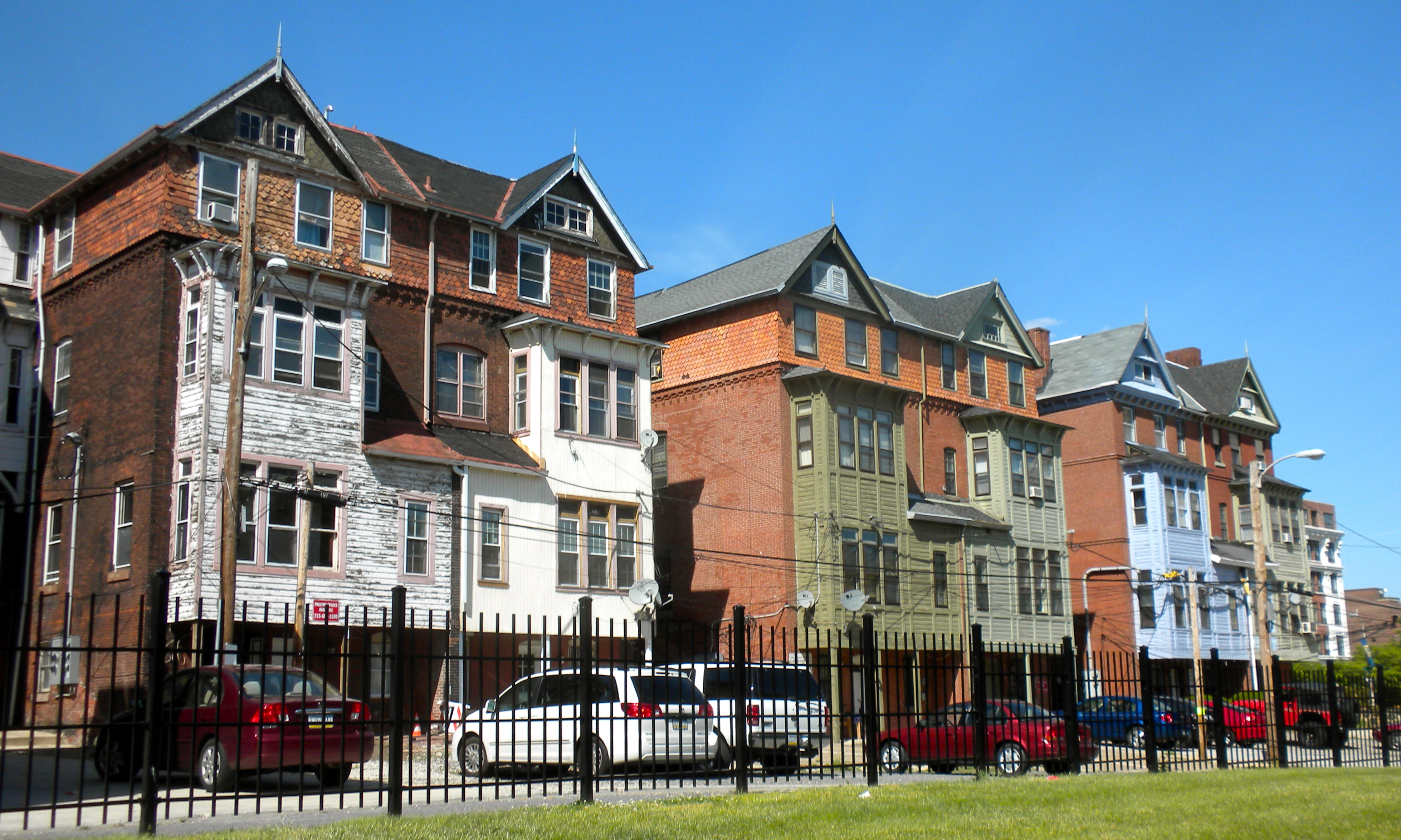 Poth and Schmidt Development Houses on the NRHP since April 21, 1983. At 3306–3316 Arch Street in University City neighborhood of Philadelphia, near Drexel University campus. This is the back side of the houses (front is on Arch)